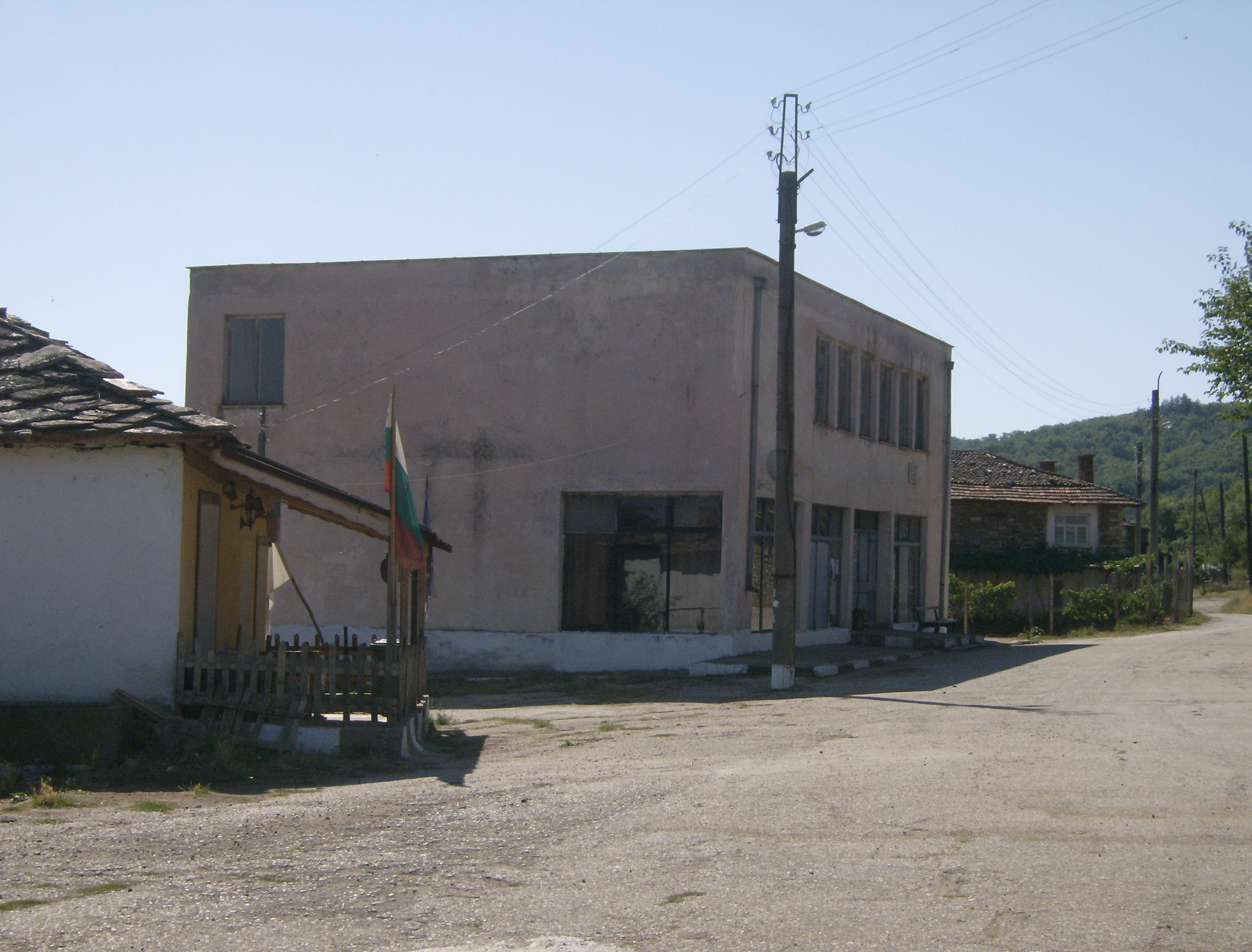 Meden buk